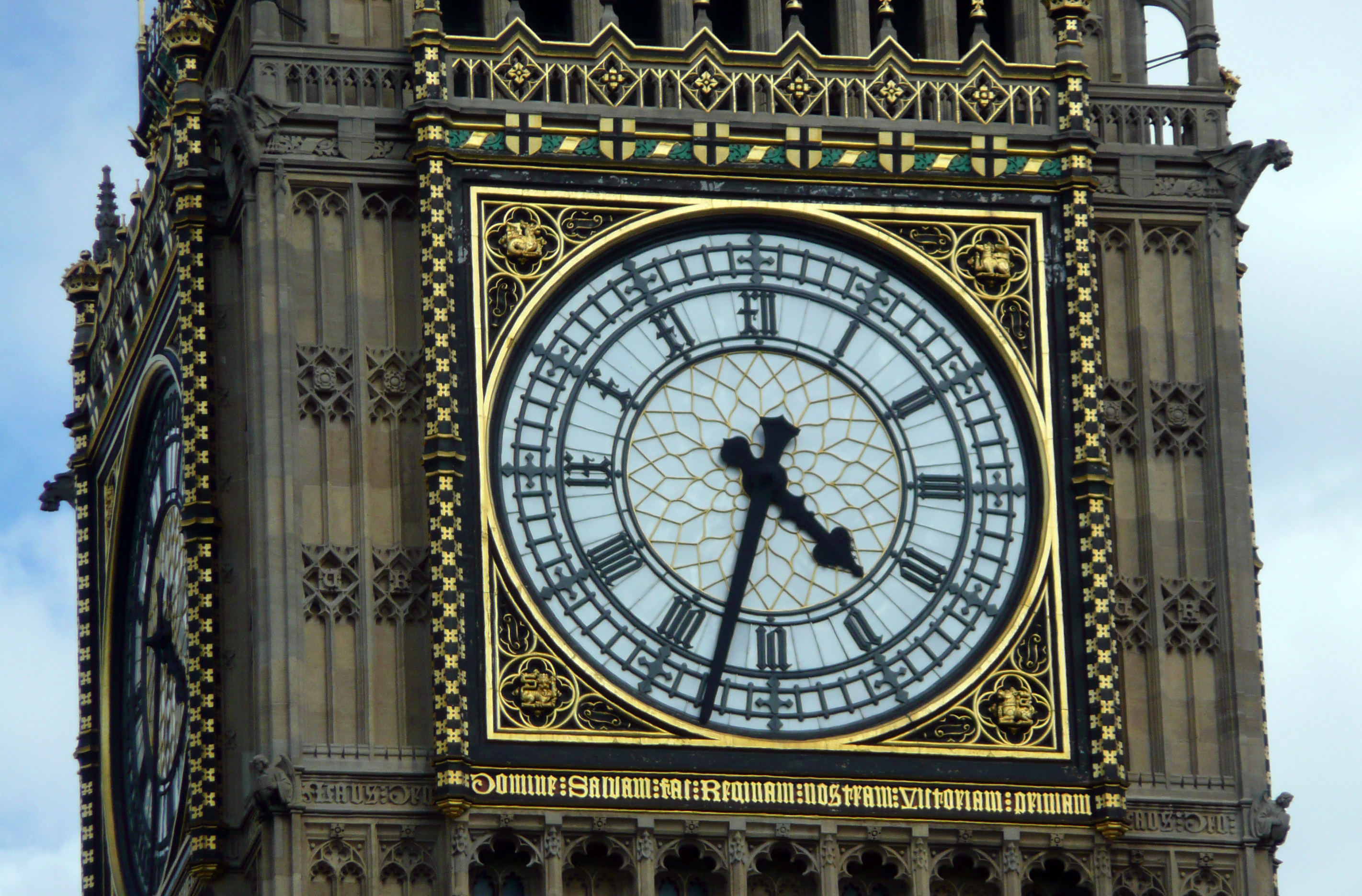 The clock face of the tower containing Big Ben, London.